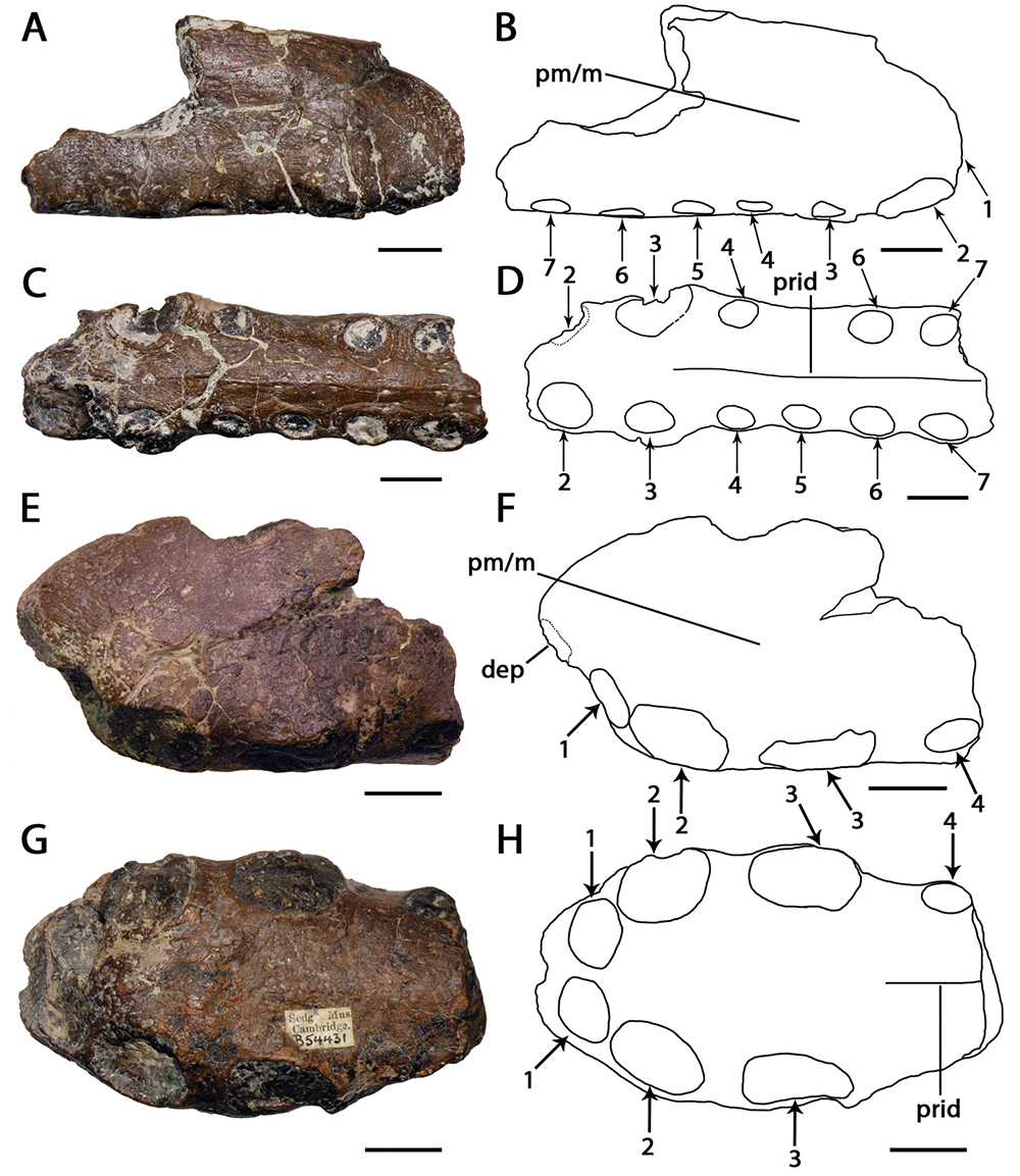 Camposipterus(?) sedgwickii comb. n., holotype CAMSM B54422 (Albian, Cambridge Greensand), anterior part of the rostrum. A right lateral B respective line drawing C ventral view D respective line drawing. E–H Camposipterus(?) colorhinus comb. n., syntype CAMSM B54431 (Albian, Cambridge Greensand), anterior part of the rostrum E left lateral view F respective line drawing G ventral view H respective line drawing. Abbreviations: dep – depression, m – maxillae, pm – premaxillae, prid – palatal ridge. Arrows and numbers indicate alveoli or teeth and their respective position. Scale bar = 10 mm.